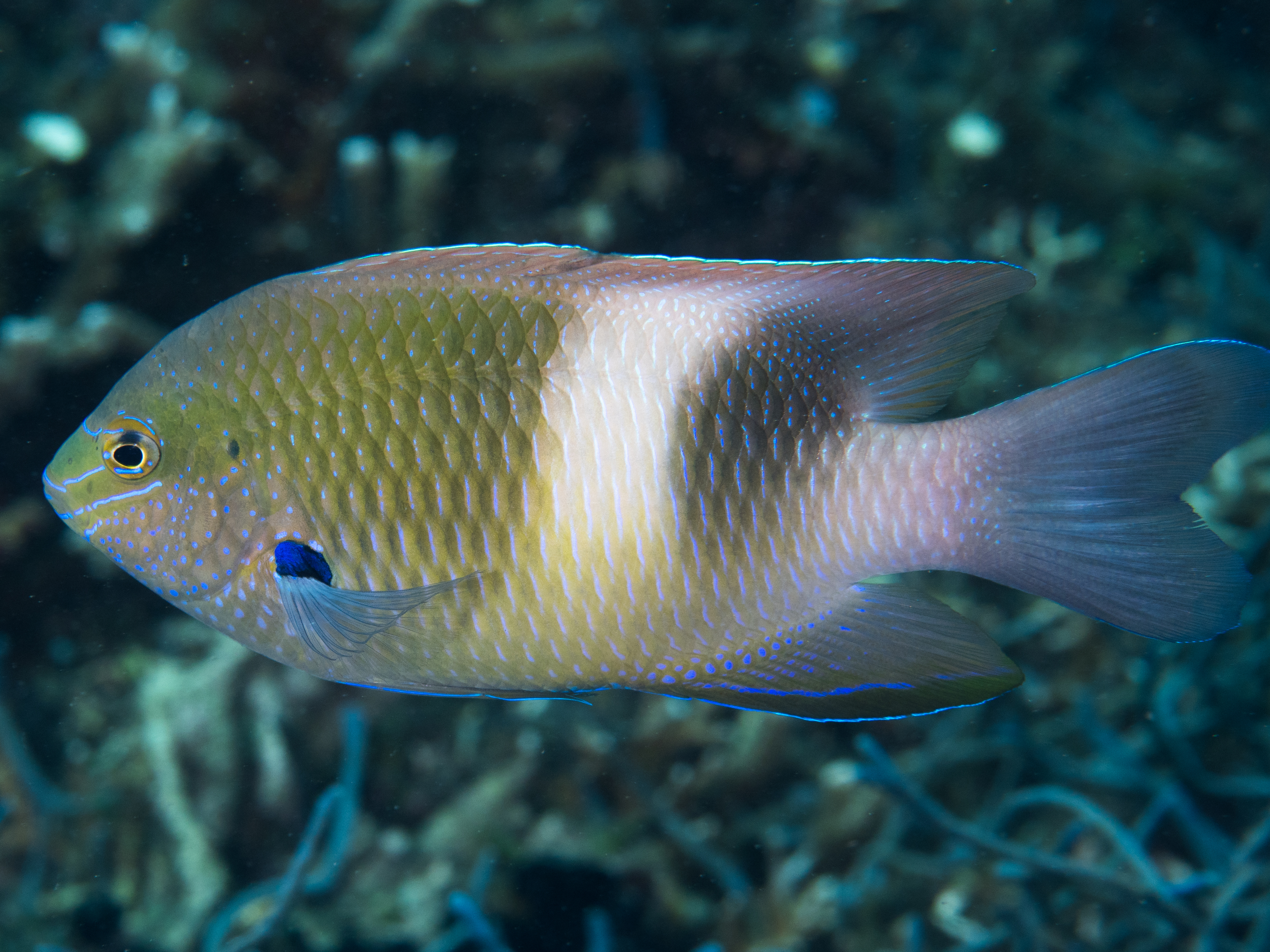 Lembeh, Indonesia - Honeyhead damsel adult (Dischistodus prosopotaenia)